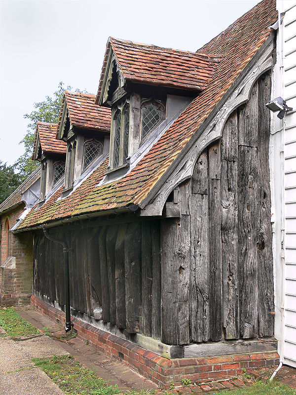 This shows the north wall (left) and part of the west wall of the 9th century wooden church at Greensted-juxta-Ongar, Essex. The walls are made of upright sections of tree trunk set side by side. There is a tiny window cut as a notch into one of the tree trunks of the north wall. This is a slightly edited version of my own digital photograph.